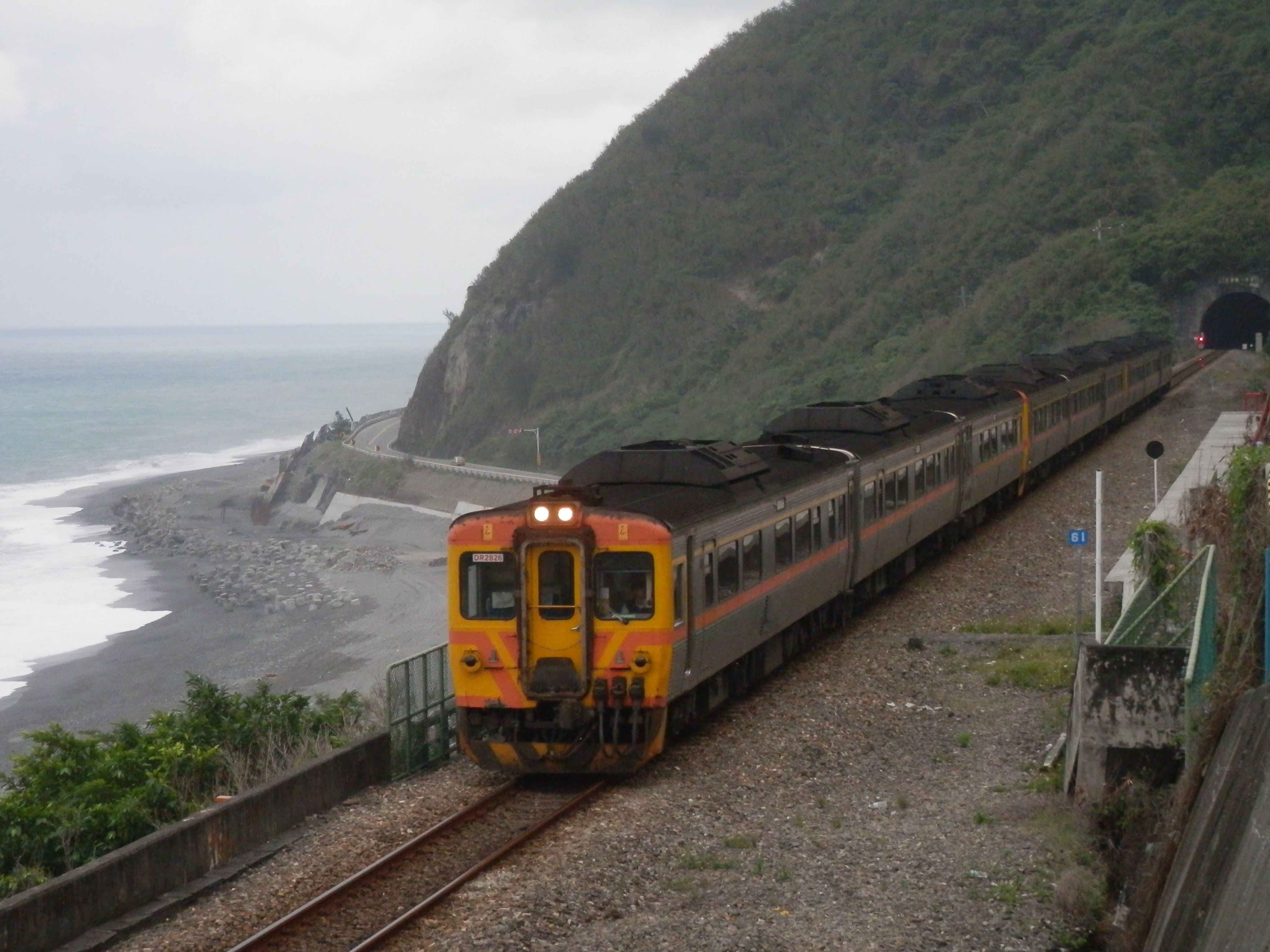 TRA Tze-Chiang Ltd-Exp Type DMU DR2800 at South-Link Line Duoliang Station